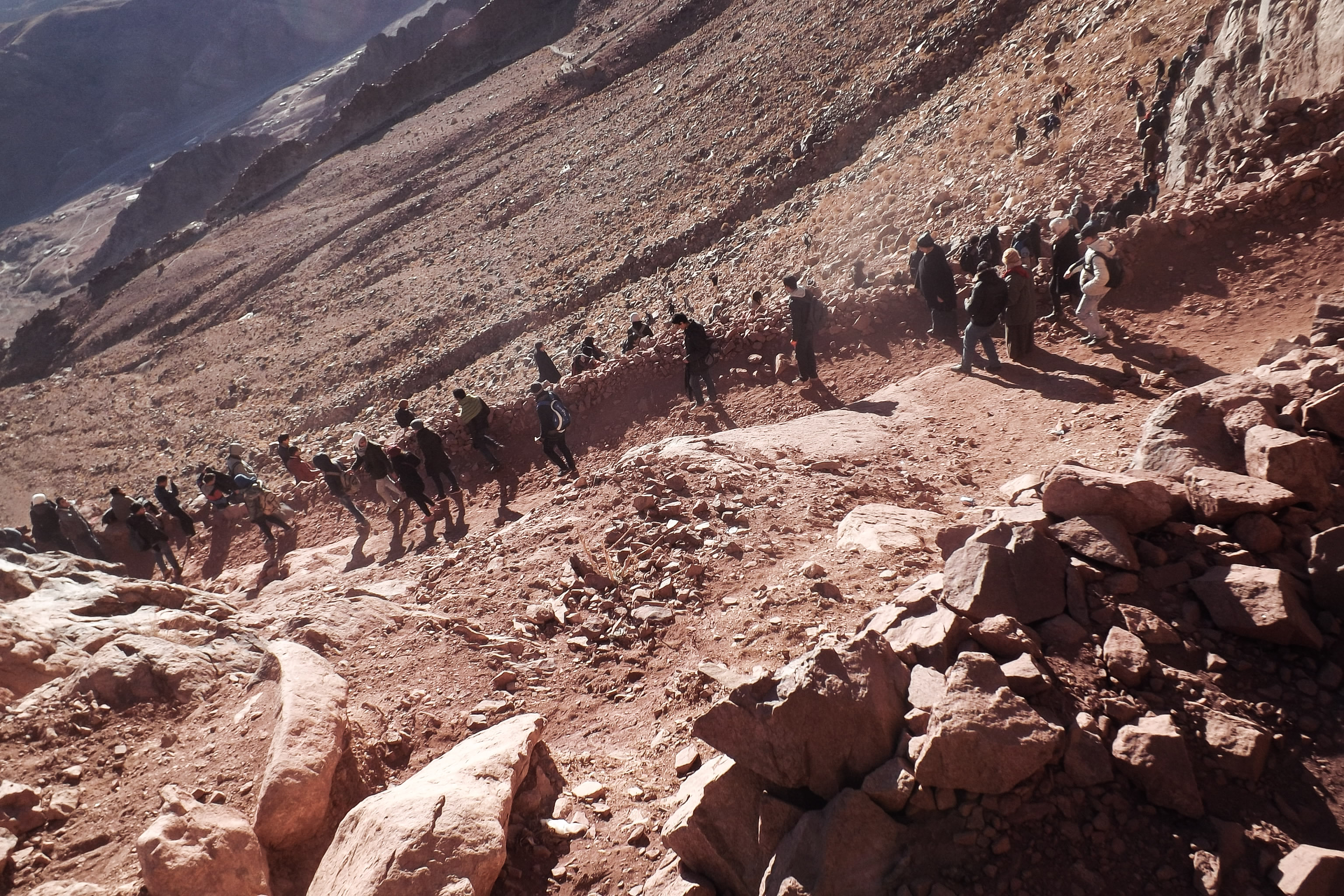 Climbing the mountain of Saint-Catherine